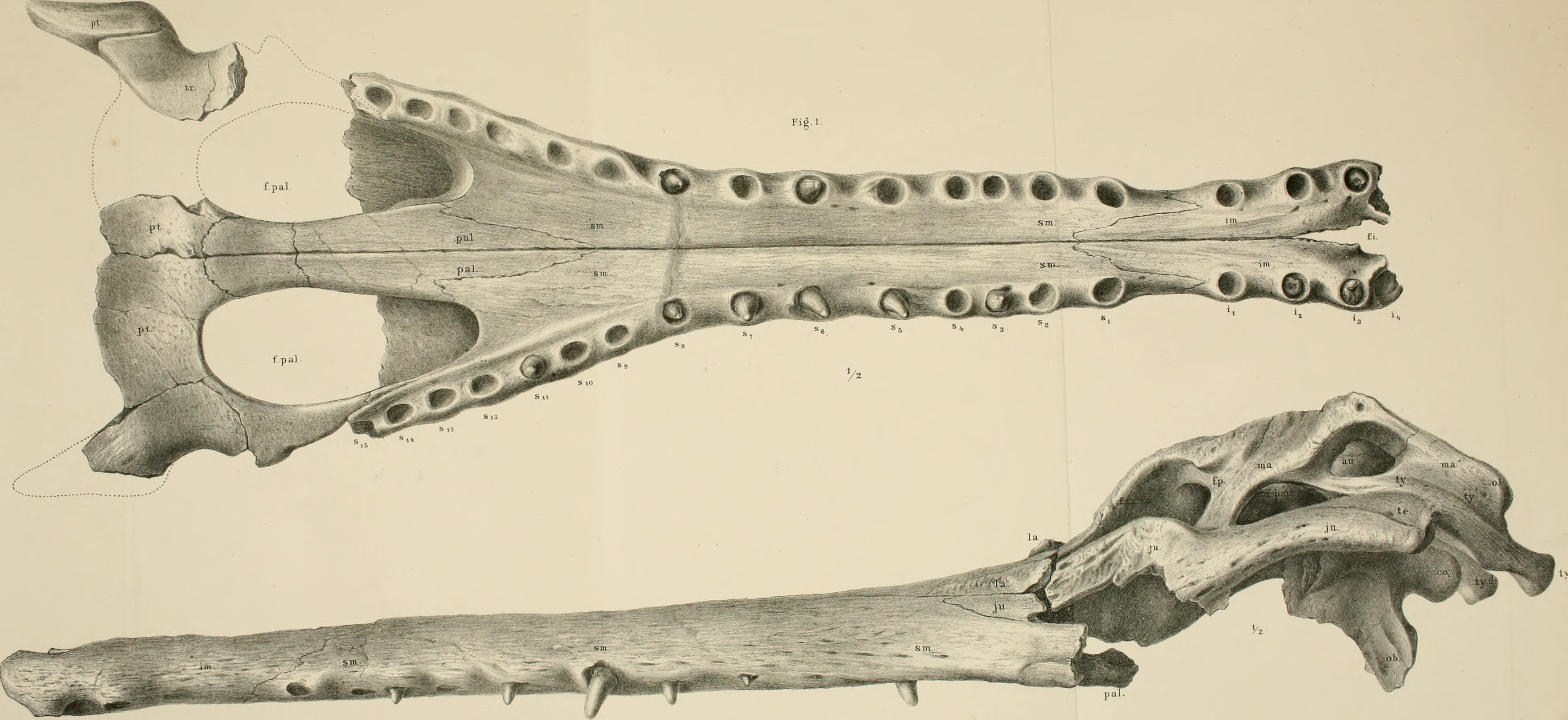 Title: Denkschriften der Kaiserlichen Akademie der Wissenschaften, Mathematisch-Naturwissenschaftliche Classe Year: 1885 (1880s) Authors: Kaiserl. Akademie der Wissenschaften in Wien. Mathematisch-Naturwissenschaftliche Klasse Subjects: Publisher: Wien : Aus der Kaiserlich-K©niglichen Hof- und Staatsdruckerei Text Appearing Before Image: Toula ii.Ivail: Krokodilsrhiidpl ans den Terliärablagfninseu von Hsgenlmrs (NiederöslPireiili). Tarn Text Appearing After Image: R.Sctgr.n nach d.Nai.gez.u.Uth. I)«'nkscliiin,.(i .l.k.Aka(l.aA\:iiiiilli.naturw.('!asso L. IJd U.Alflli. k k.Hof u.Staatsdrwpkei